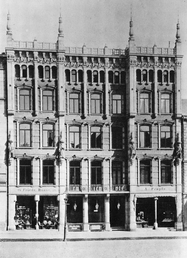 The Rutenhof built by Lüder Rutenberg 1873–1875 on the westside of the Domshof square in Bremen (Germany), dismantled 1967/1968.